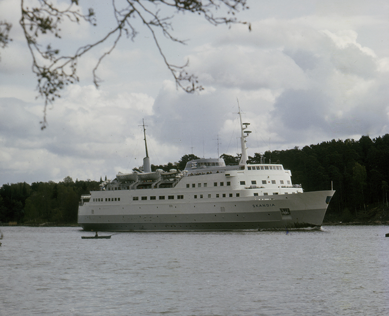 Ferry M/S Skandia near Turku, Finland